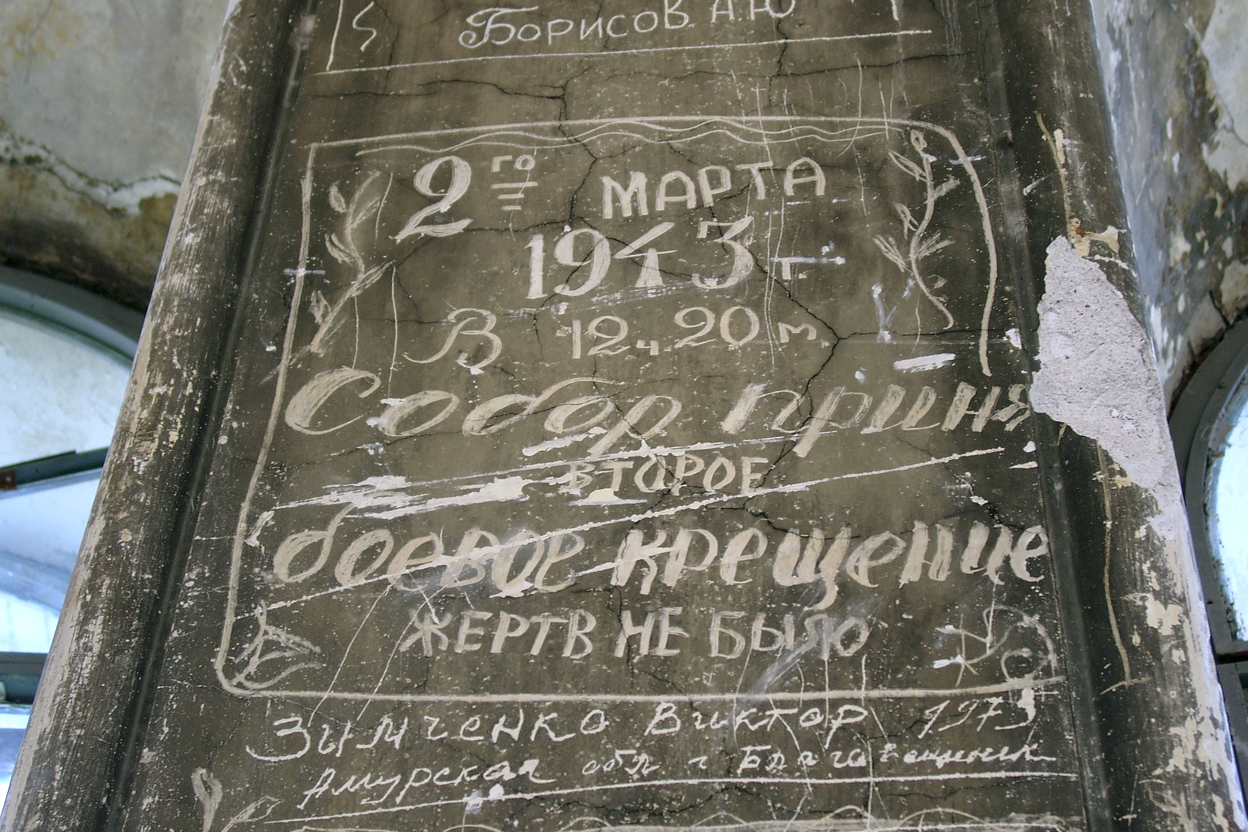 Kronstadt Naval Cathedral interiors before renovation, 2004.